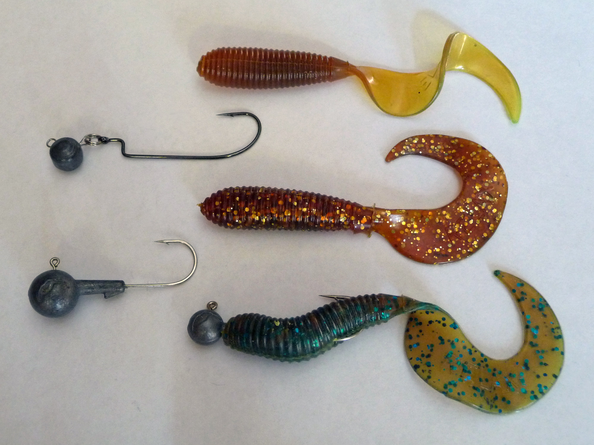 Soft plastic lure (like Twister) with jig. Fishing equipment